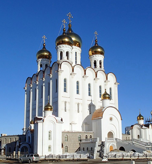 Orthodox cathedral of the Holy Trinity in Magadan